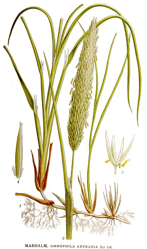 Ammophila arenaria (L.) Link Original Description "Marhalm", Ammophila arenaria (L.) Lk.